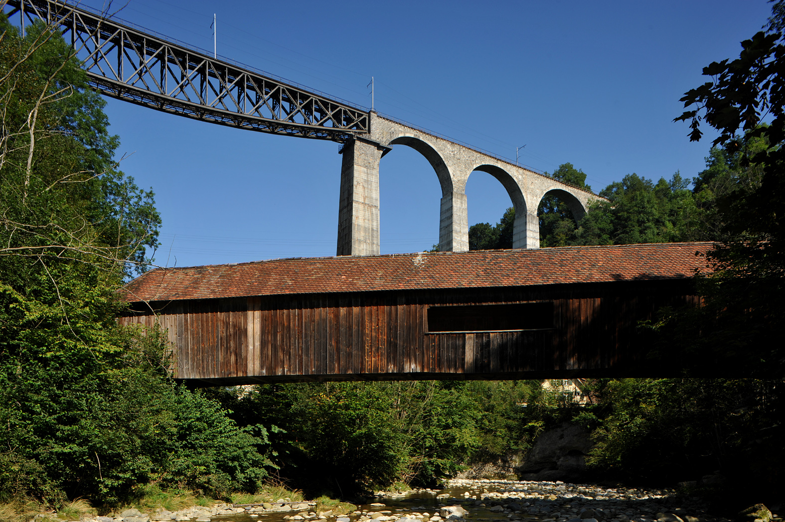 Wooden bridge over stream Urnäsch (Talking bridge), in the background SOB Sitter viaduct; Appenzell Ausserrhoden, Switzerland.